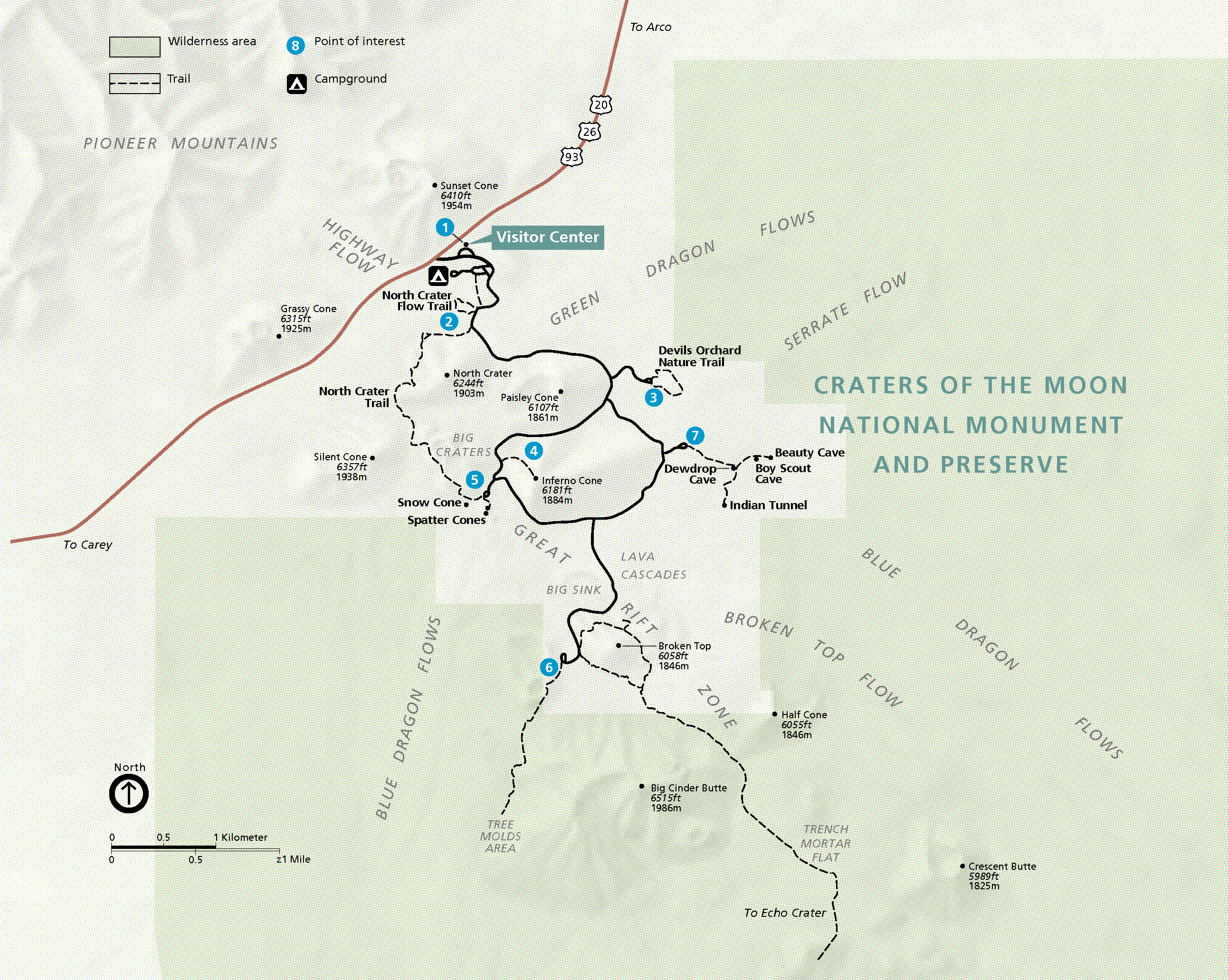 Schematic map of the developed area of Craters of the Moon National Monument and Preserve, Idaho, USA. This NPS map shows the loop drive, its stops and the other infrastructure of the National Monument.